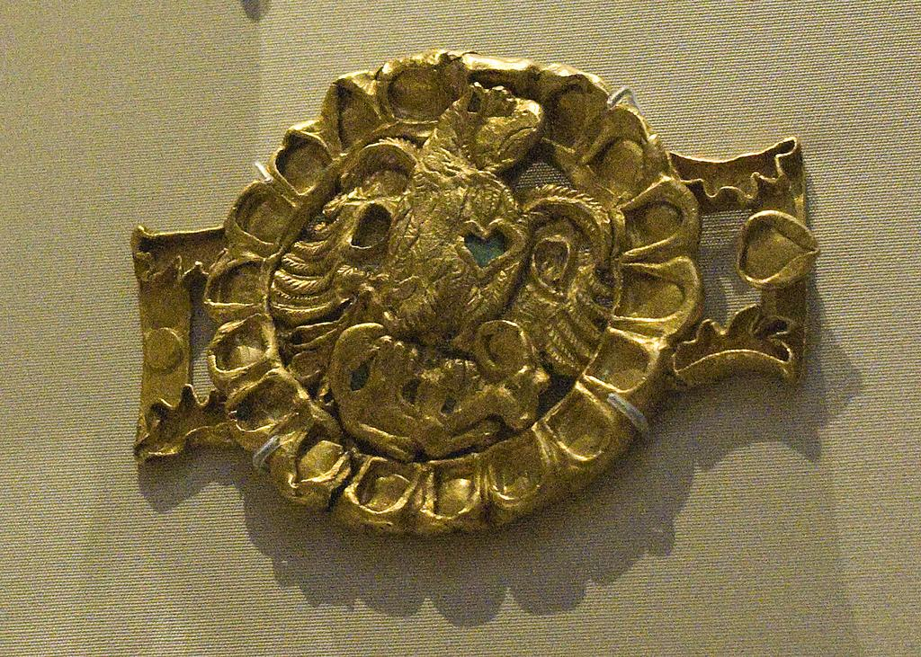 A gold Parthian belt bucket now located in the Persian Empire collection of the British Museum. Its unique eagle design with outstretched wings may reflect incoming Roman influences into the Parthian Empire.